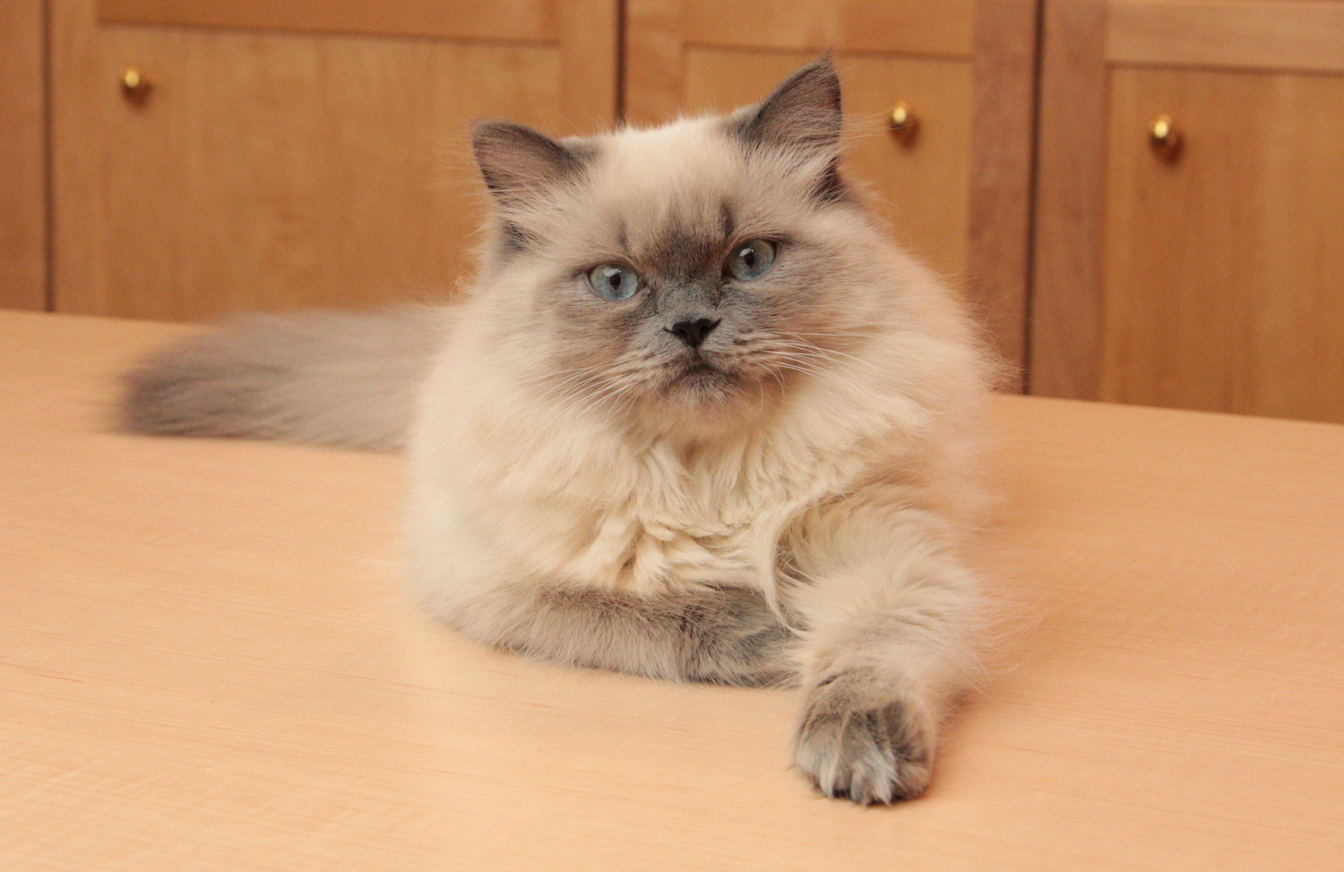 Example of Bluepoint feline markings on juvenile male